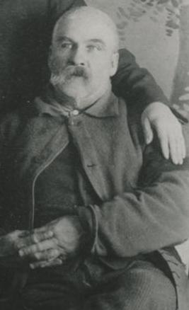 Captain Alfred H. Mayo (undated) (1847 – 1924). Photo from the Yukon Archives